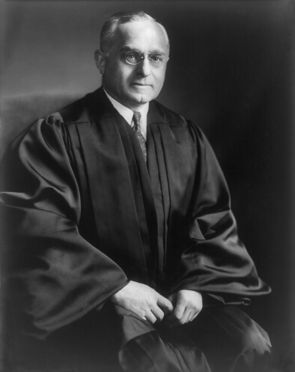 Portrait of Associate Justice Felix Frankfurter of the United States Supreme Court.